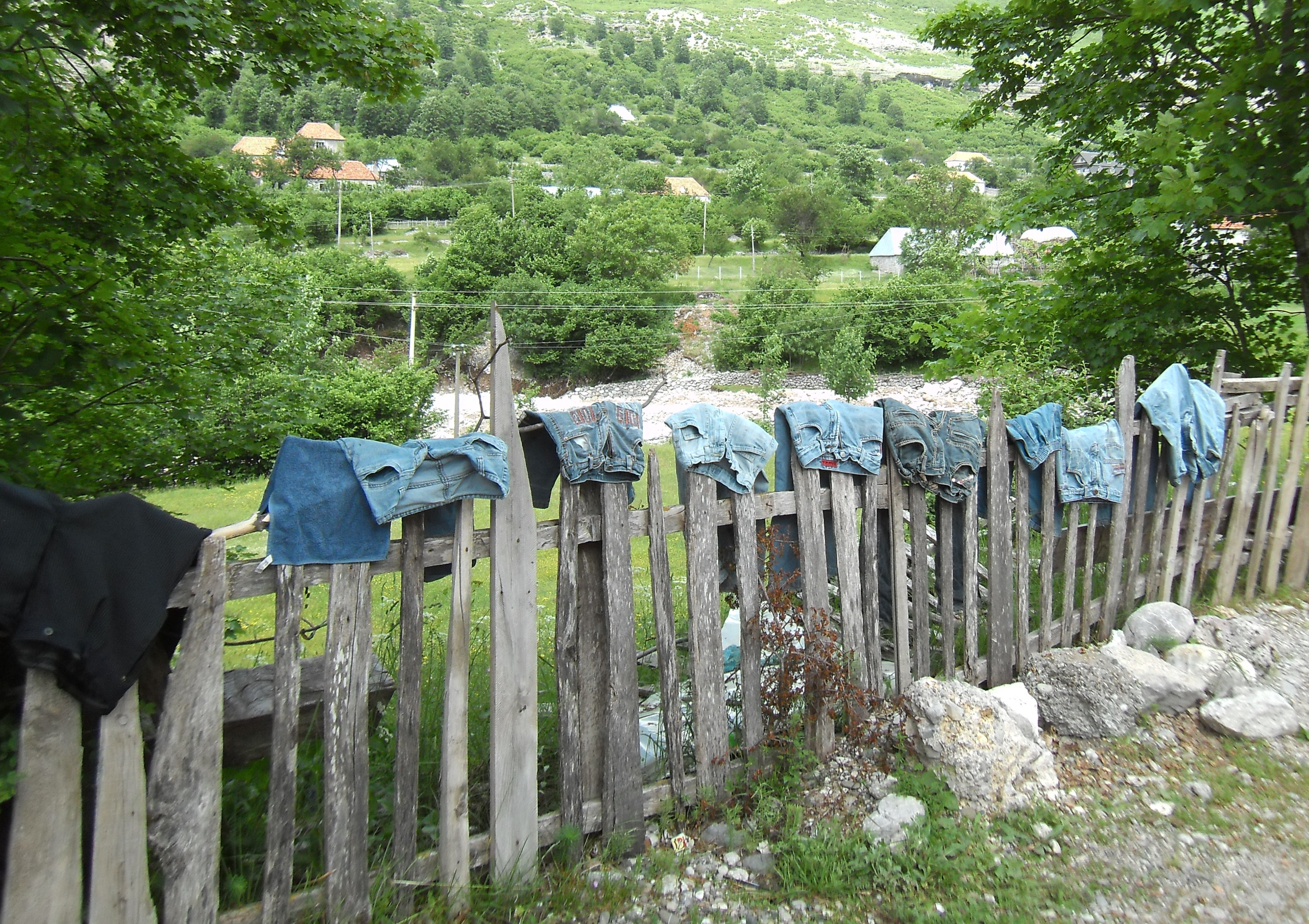 Laundry day; seen in Boge, Albania